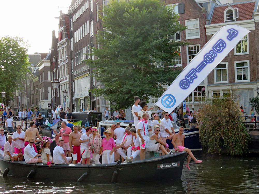 Boat of the gay disco/sauna 't Bölke in the Dutch city of Enschede, here seen right after the 2018 Canal Parade of Pride Amsterdam.